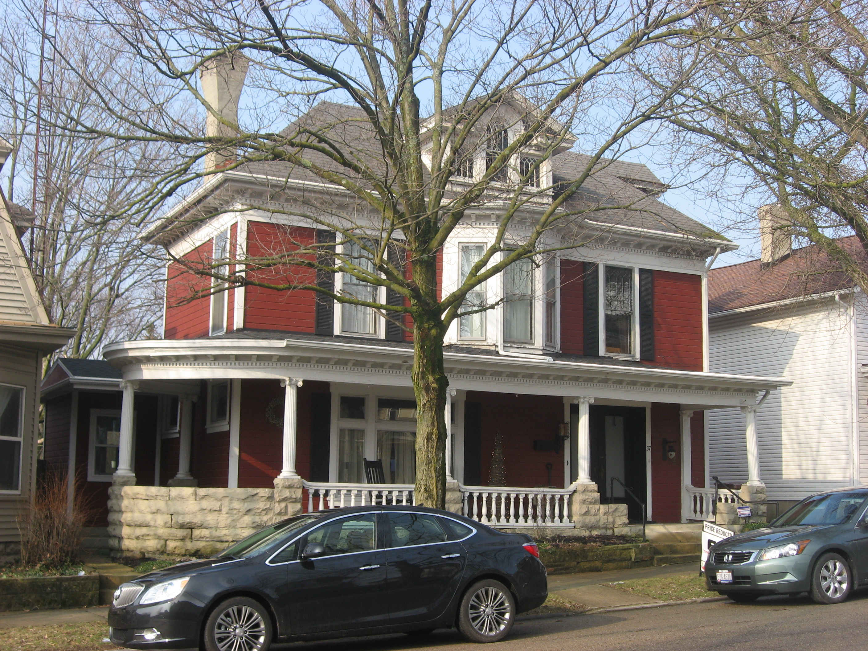 Front of the Demand-Gest House, located at 37 N. Main Street (State Route 29) in Mechanicsburg, Ohio, United States. Built in 1900, it is listed on the National Register of Historic Places.